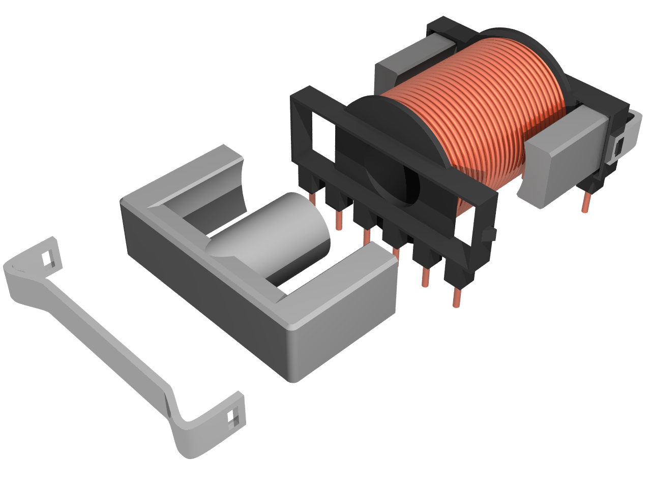 exploded view of a ER core-based inductor